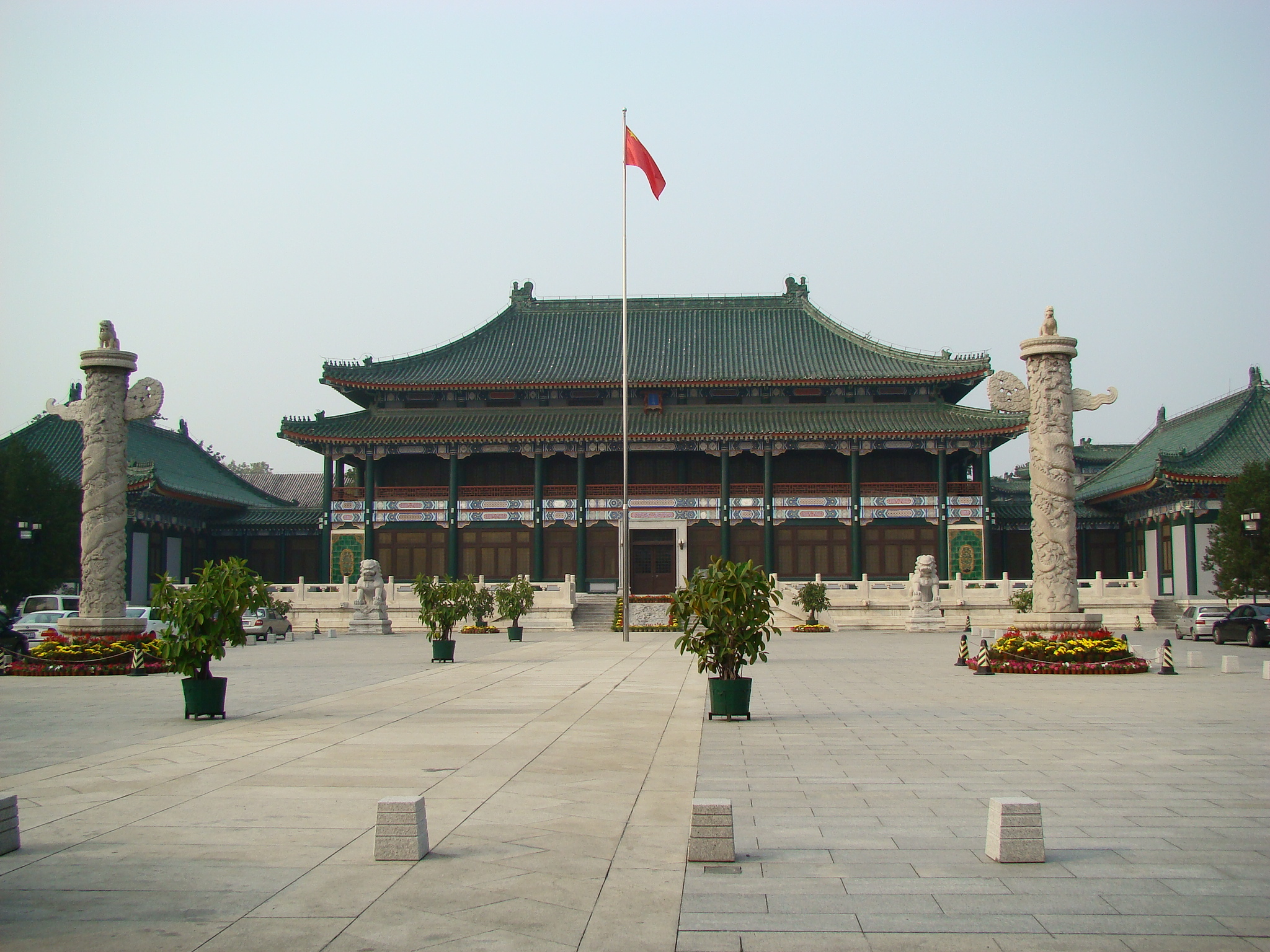 The old buildings of the National Library of China (1931~1987), now (since 1987) the main branch of the National Library of China that houses historical and ancient books, documents and manuscripts